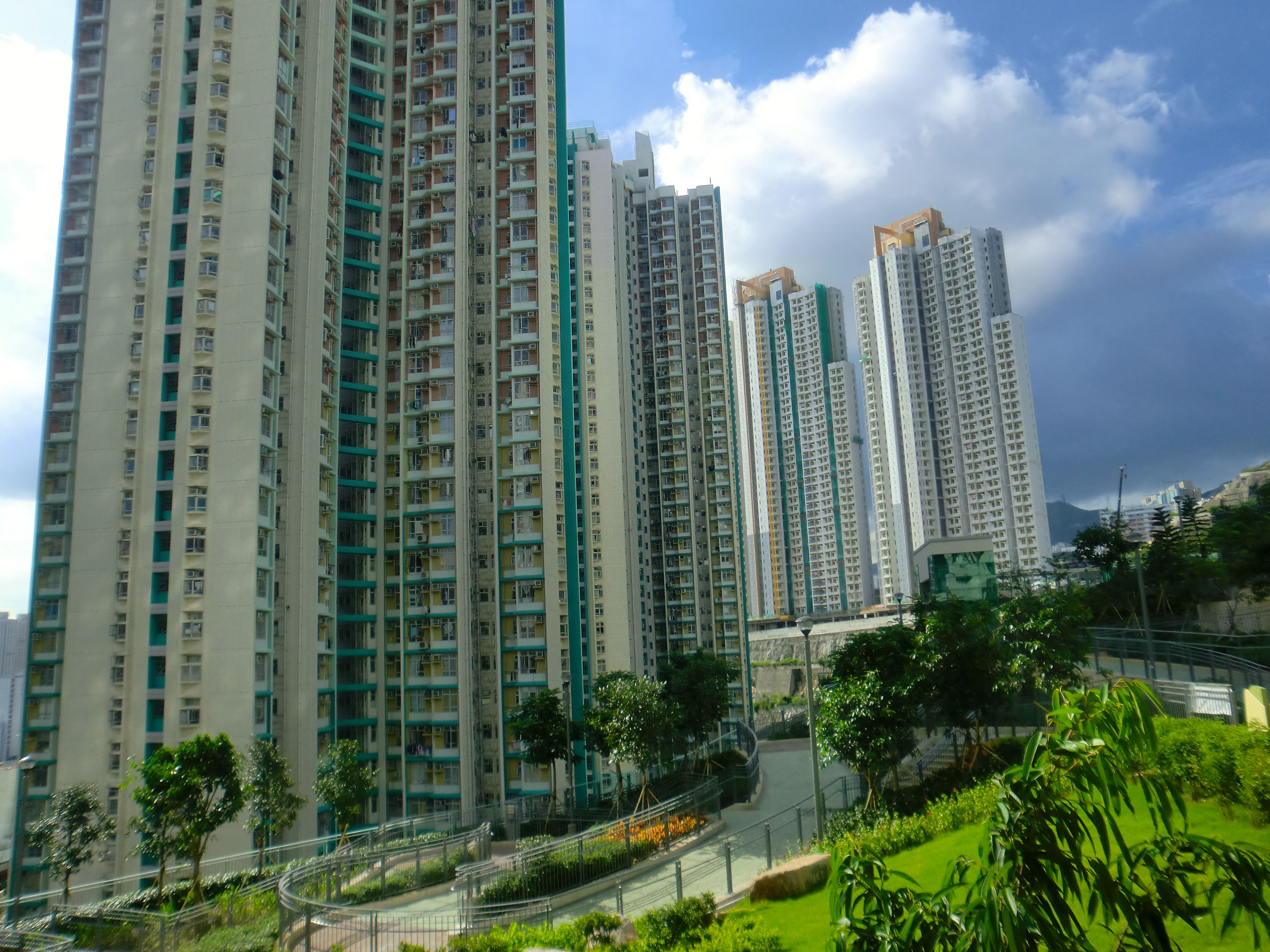 Choi Hei Road Park in Jordan Valley. The background building is Choi Ying Estate & Choi Tak Estate.